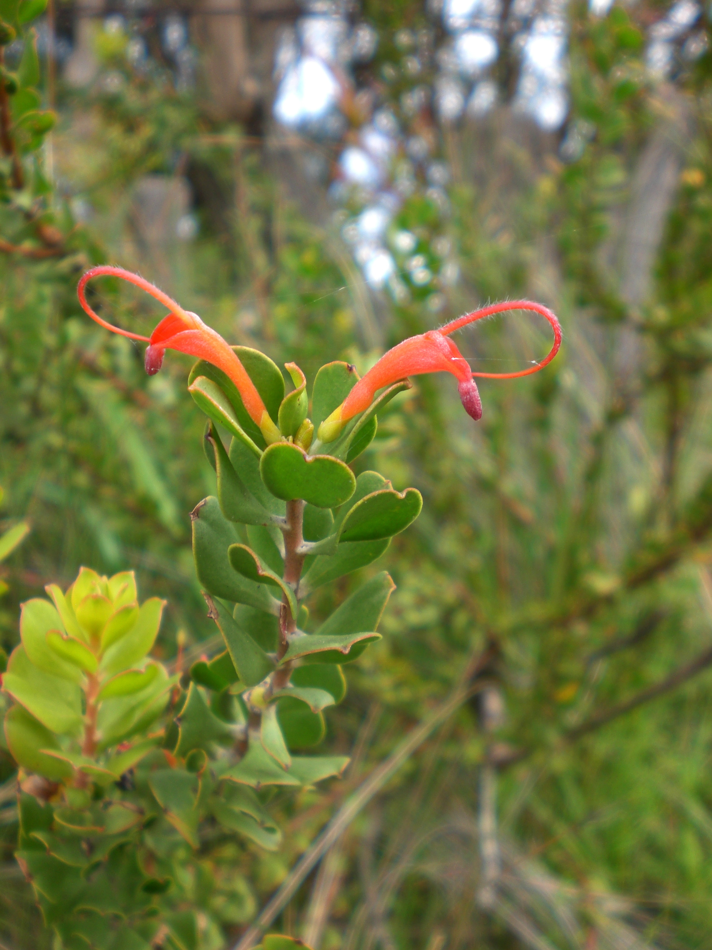 A specimen of Basket Flower photographed in Big Grove, Albany, Australia